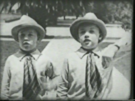 Vidcap from public domain film "One Terrible Day". Film is public domain because it was produced before 1923.